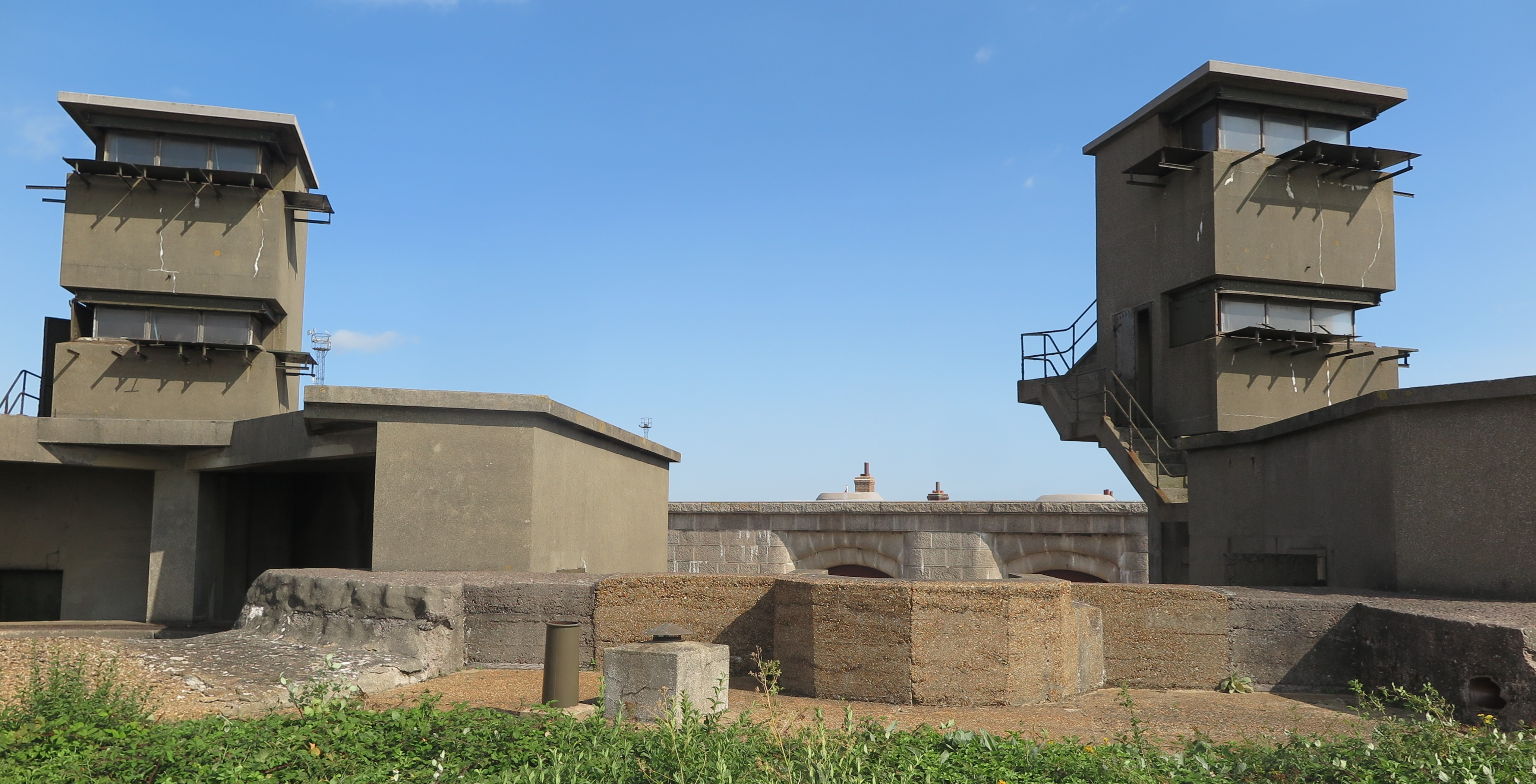 Twin 6-pdr Battery with old batteries in evidence. Darell's Battery, Fort LAndguard.